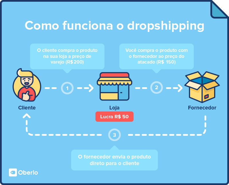 Como funciona o dropshipping